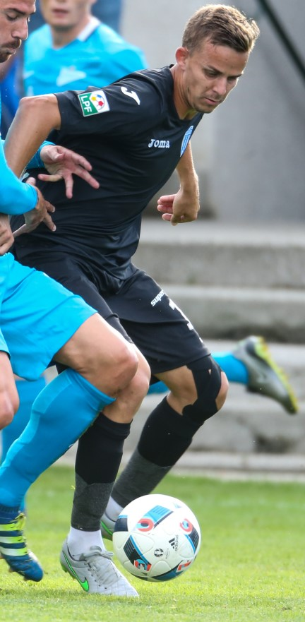 Nicușor Bancu